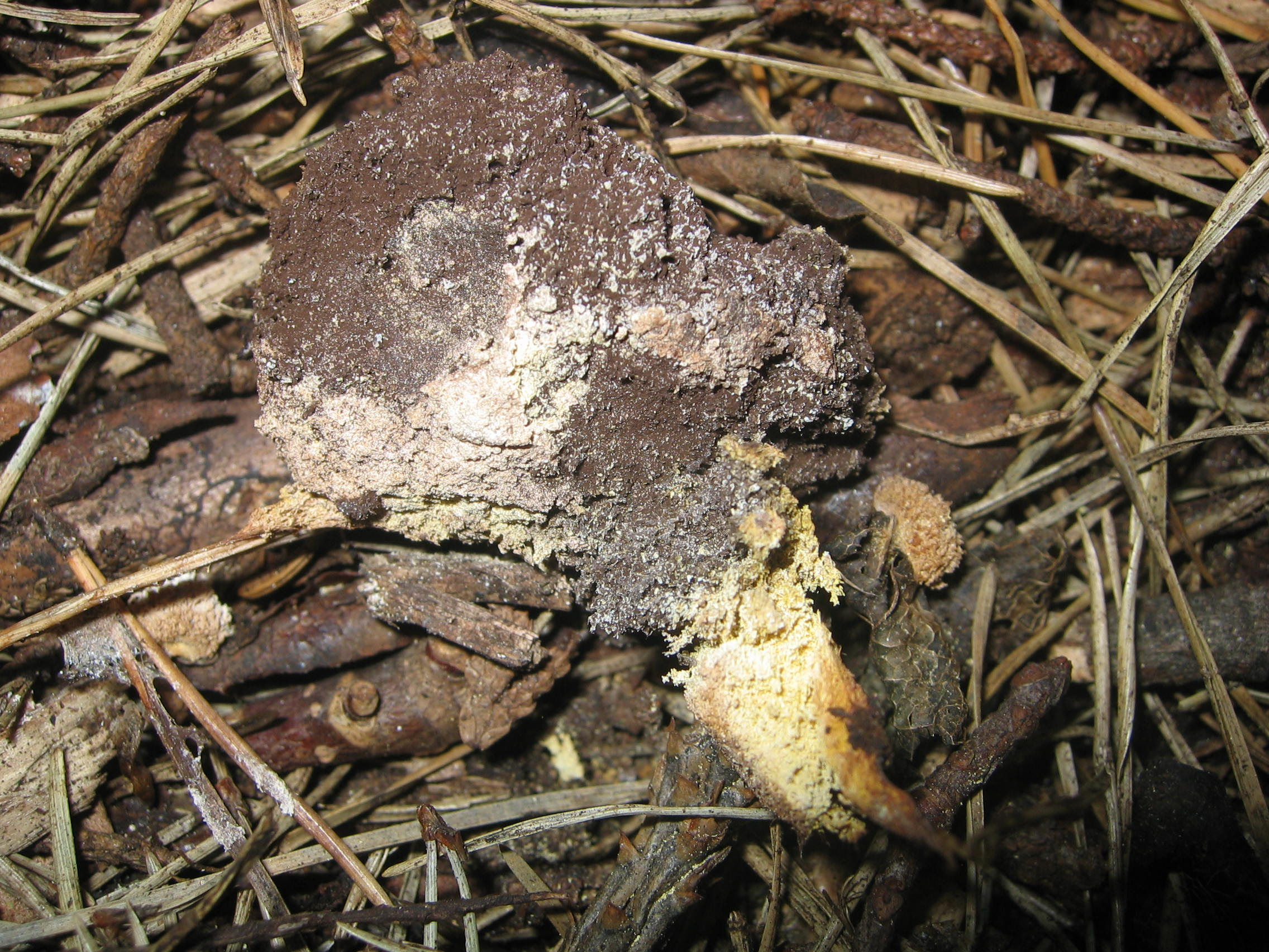 Slime mould (former yellow, than reddish / brown), Fuligo rufa (old), (Myxogastria)